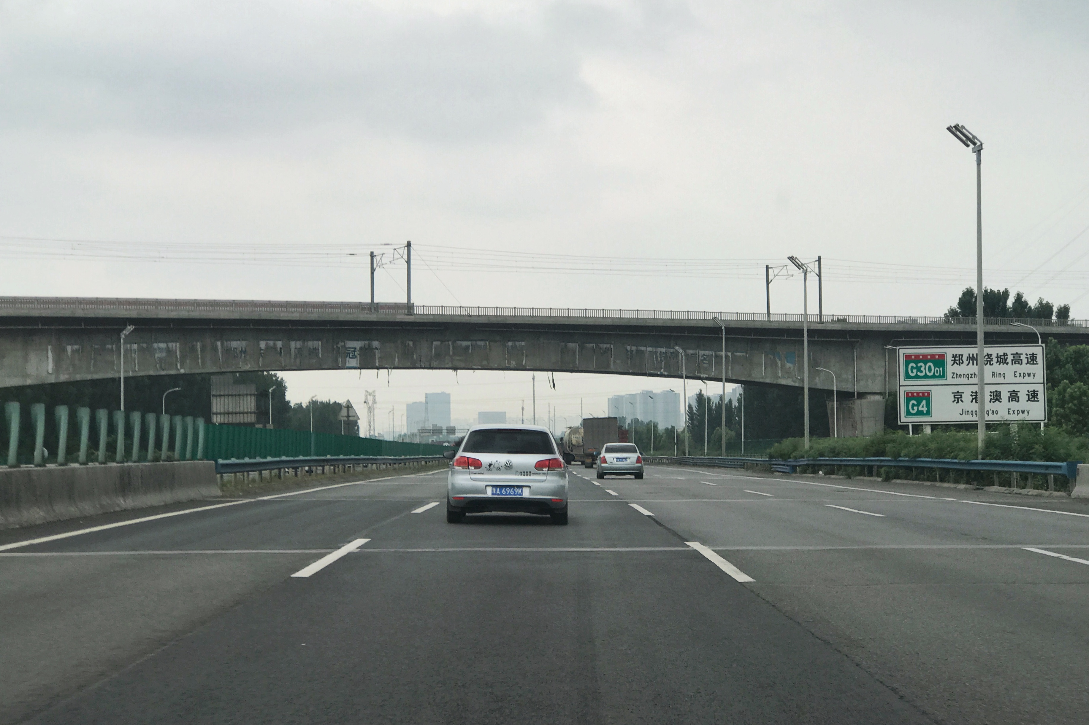 G4 Expressway Zhengzhou section and Zhengzhou-Kaifeng Intercity Railway